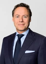 Tilburg University